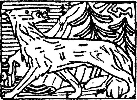 Gerhard Munthe: Illustration for Harald Hårfagres saga. Snorre 1899-edition. vignett 8